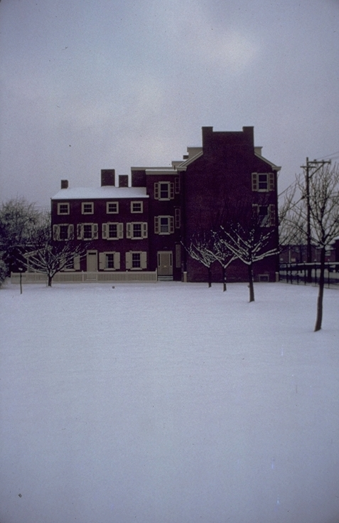 The Edgar Allan Poe National Historic Sitelocated at 532 N. Seventh Street in Philadelphia, Pennsylvania